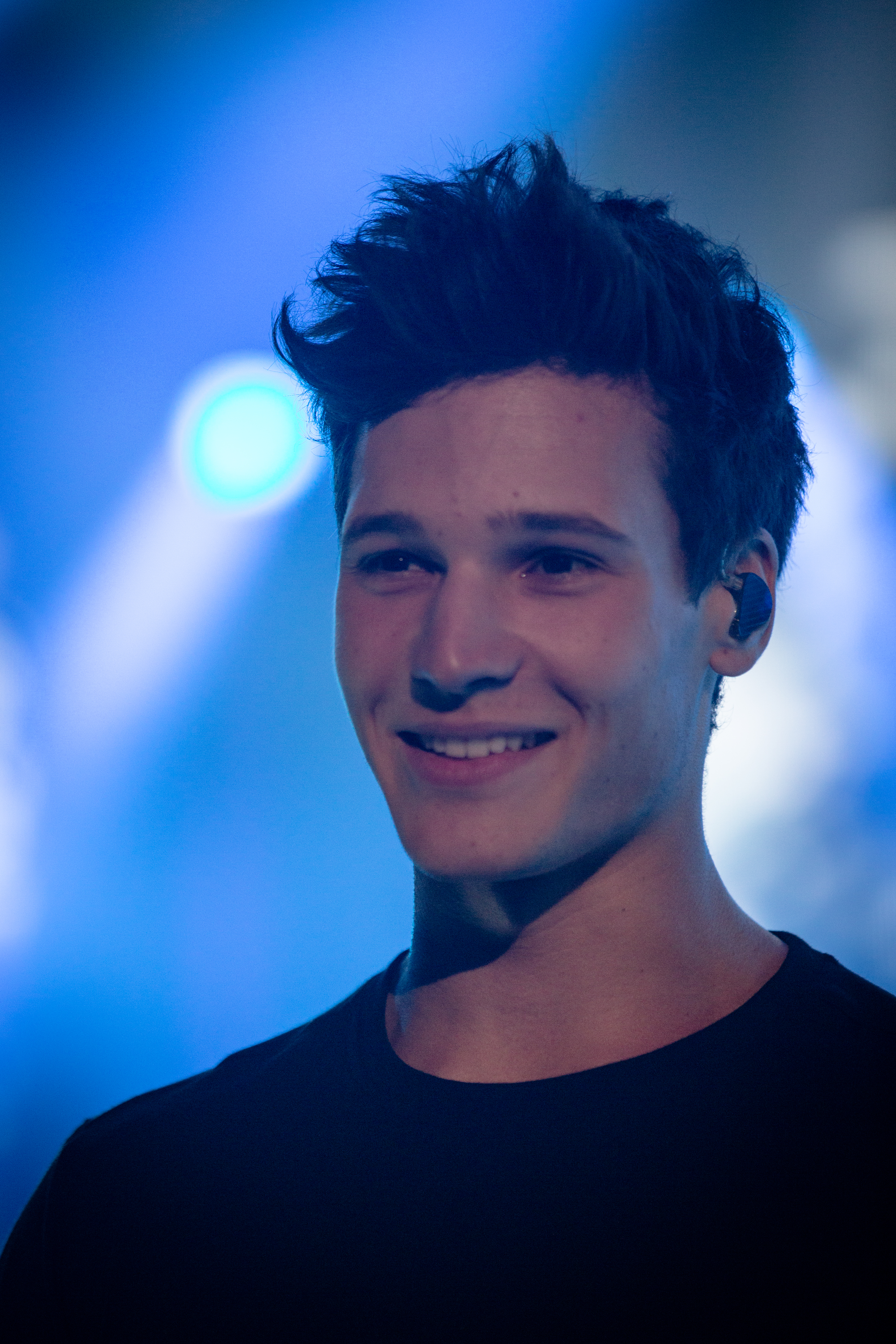 Singer Wincent Weiss at the SWR3 New Pop Festival 2017